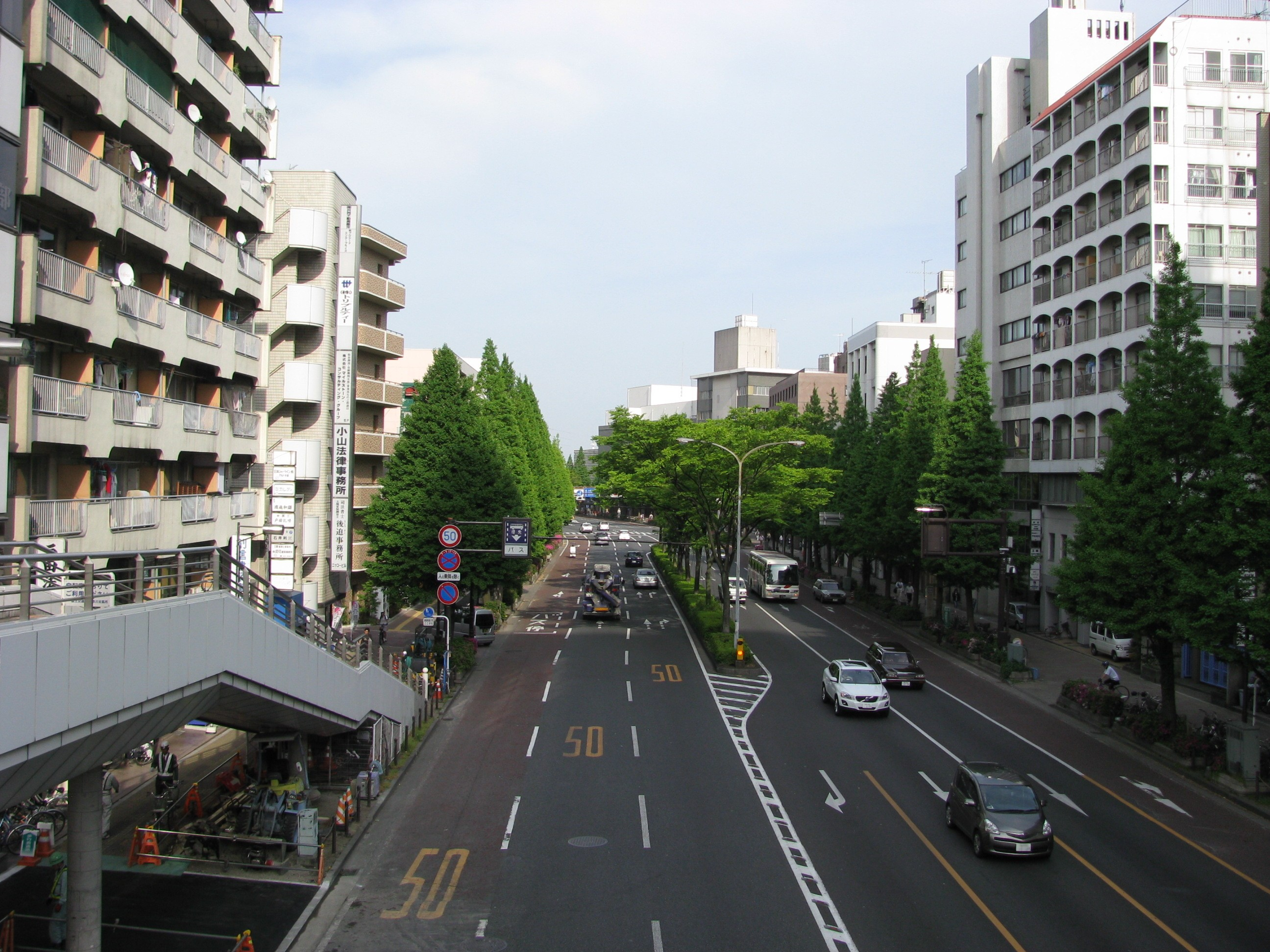 The Japan National Route 132. This place is in Kawasaki-ku, Kawasaki, Kanagawa Prefecture, Japan.